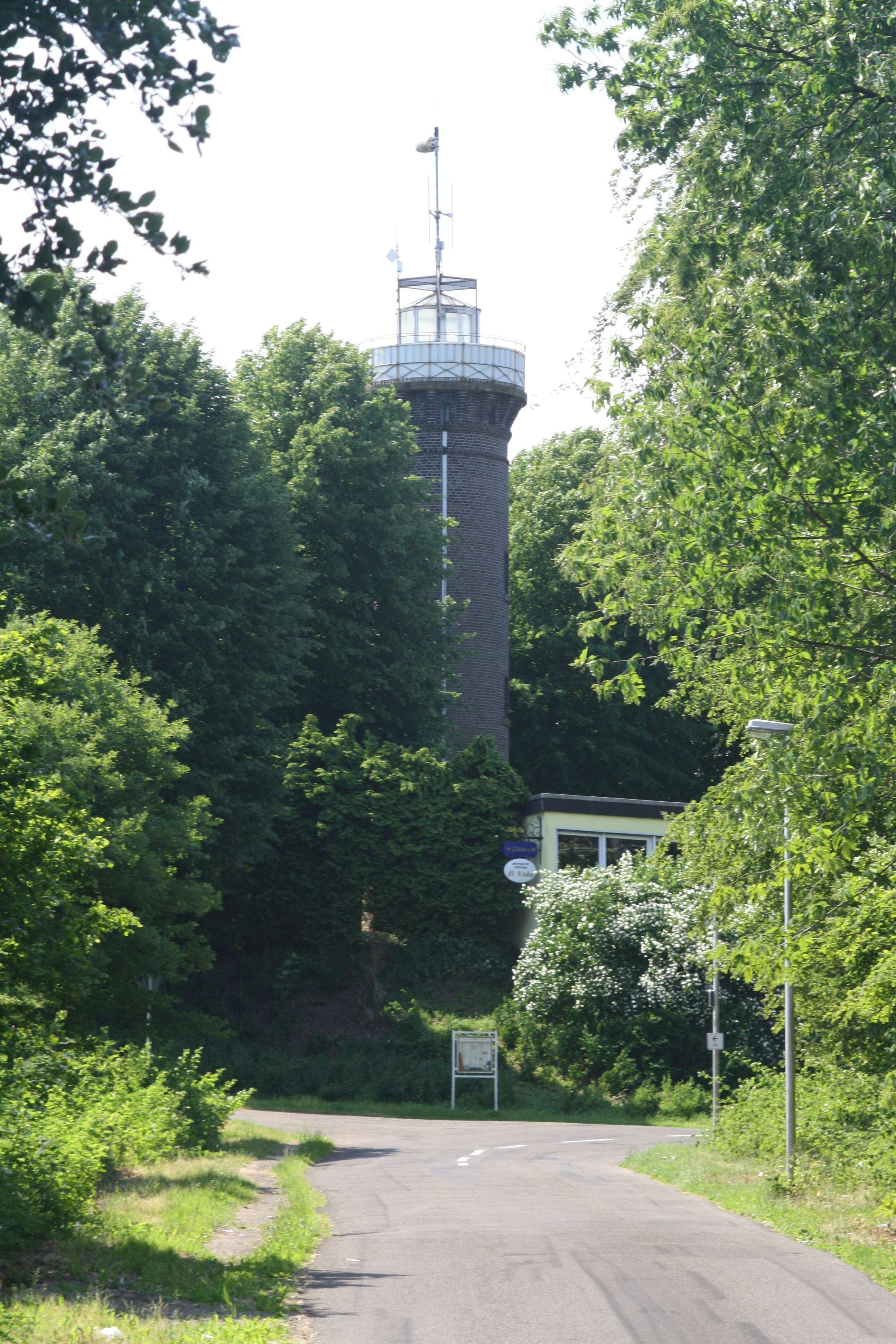 Observation tower on Klever Berg, Cleves, North Rhine-Westphalia, Germany